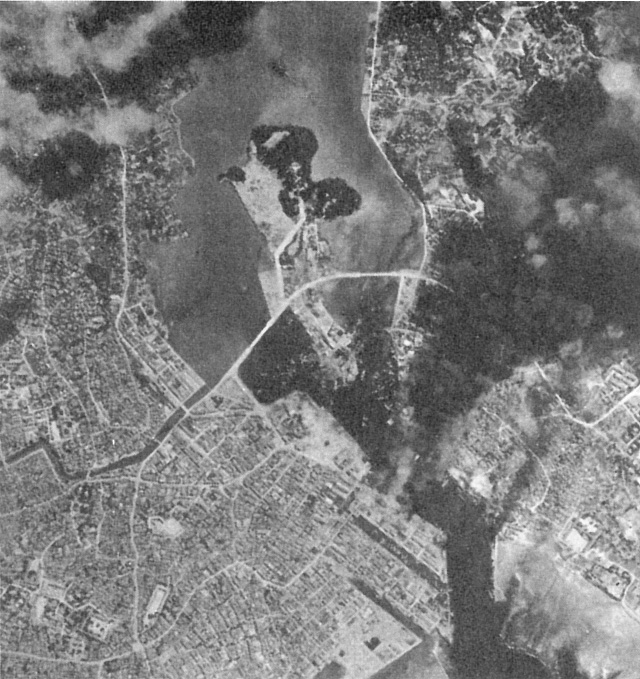 NAHA, capital city of Okinawa, under aerial attack during the 10 October 1944 carrier strike.